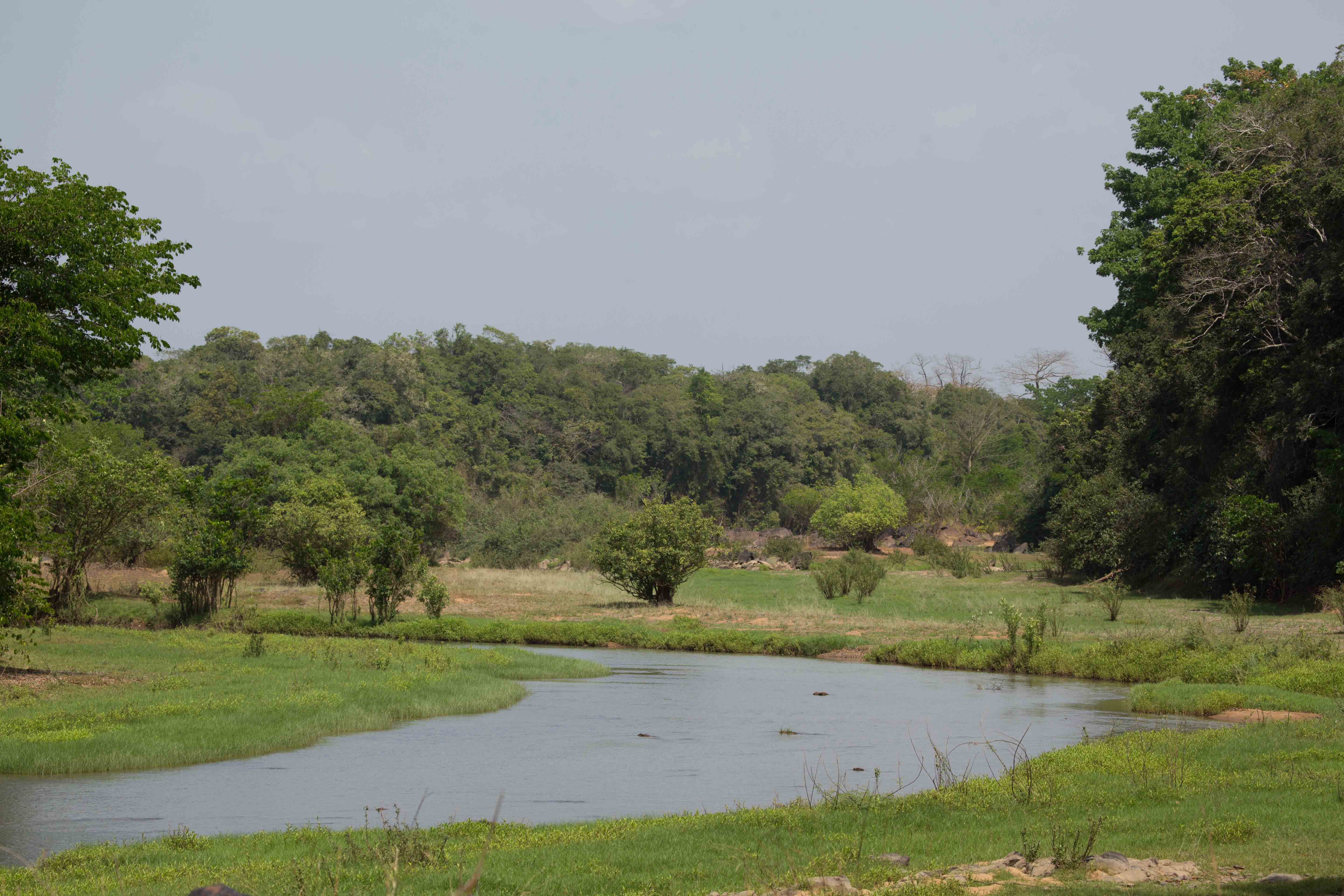 Comoe river with adjoining wetlands